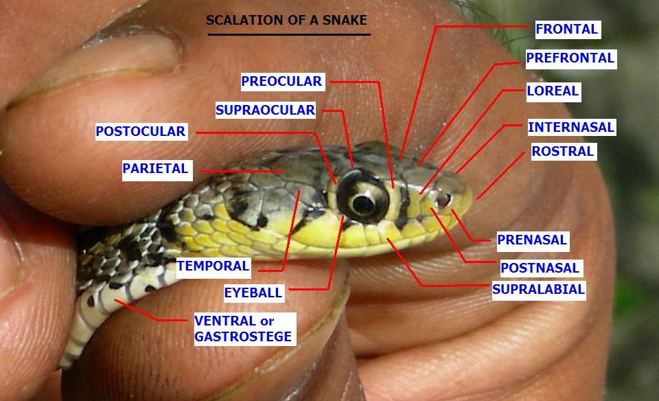 Scales on a snake's head. (Photo 1). Original photo is of Buff-striped Keelback Amphiesma stolata Family Colubridae, Serpentes.